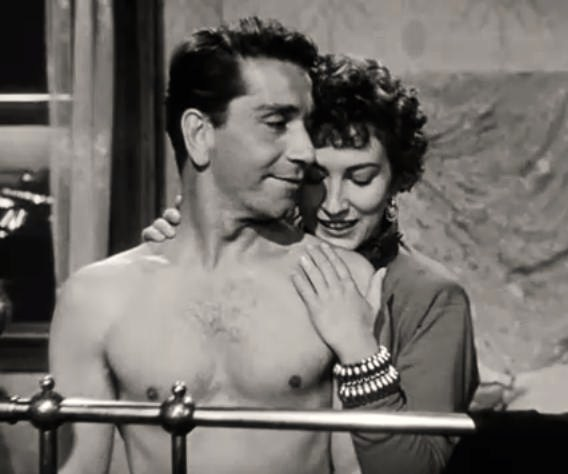 Richard Conte & Valentina Cortese in Thieves' Highway - trailer (cropped screenshot)